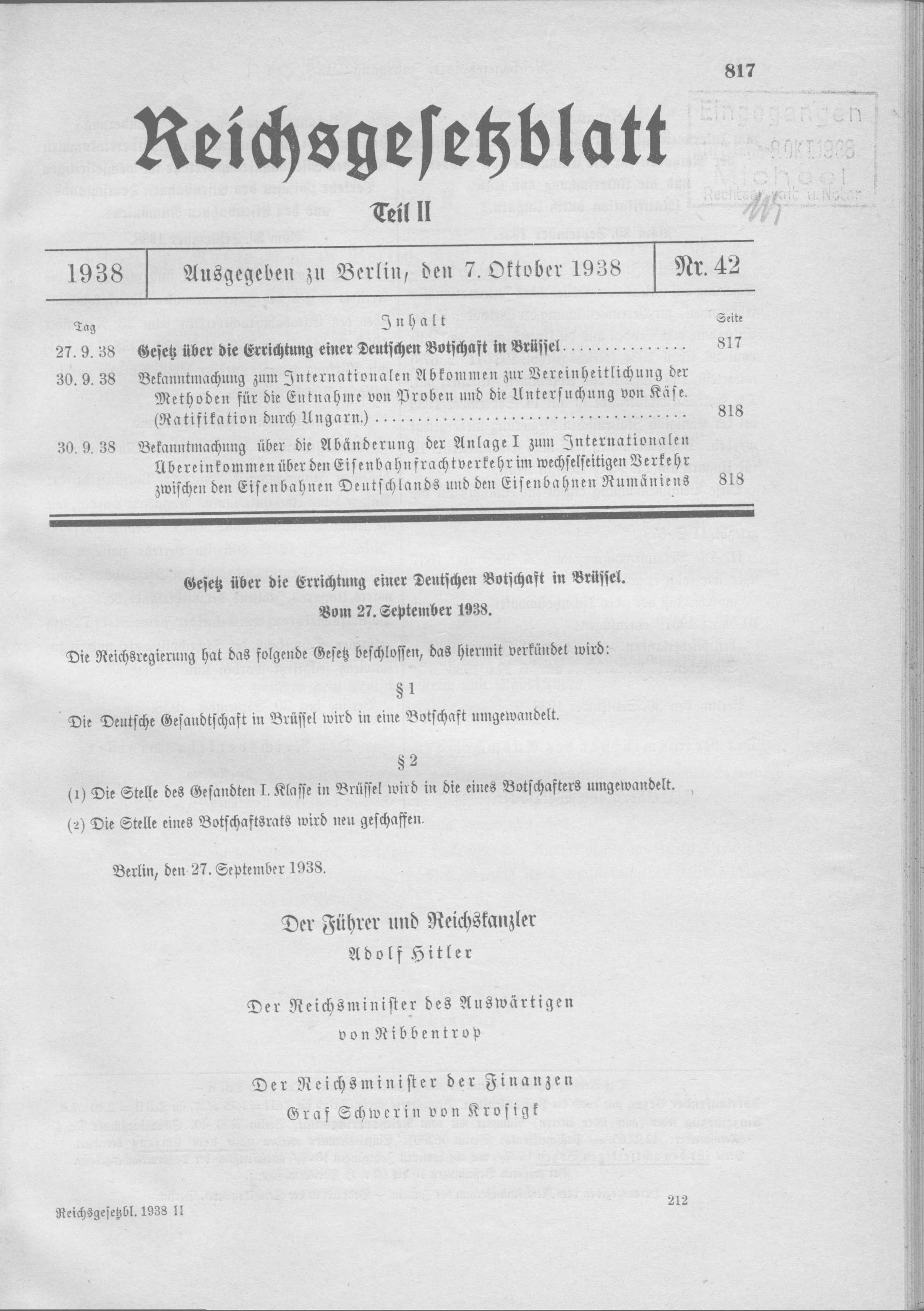 Scan from the Imperial Law Gazette of Germany, 1938, part 2